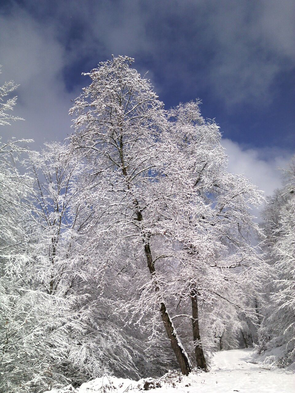 Shirkola-neka-mazandaran-iran